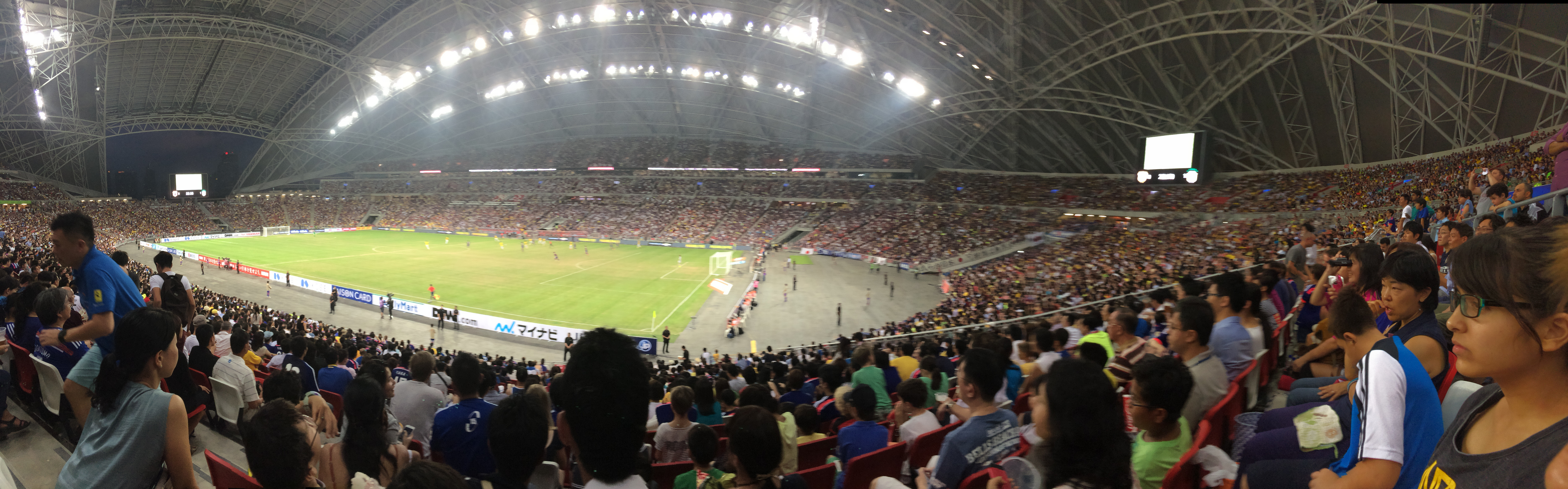 Panoroma of the Singapore National Stadium during the Japan vs Brazil international friendly on 14 October 2014, the first ever sell-out crowd (55,000) of the new stadium.